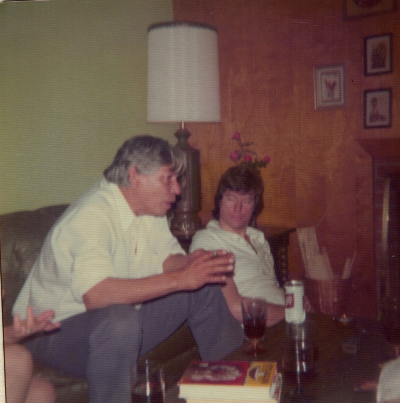 Jose Antonio Villareal at a friend's house the day he autographed my book.